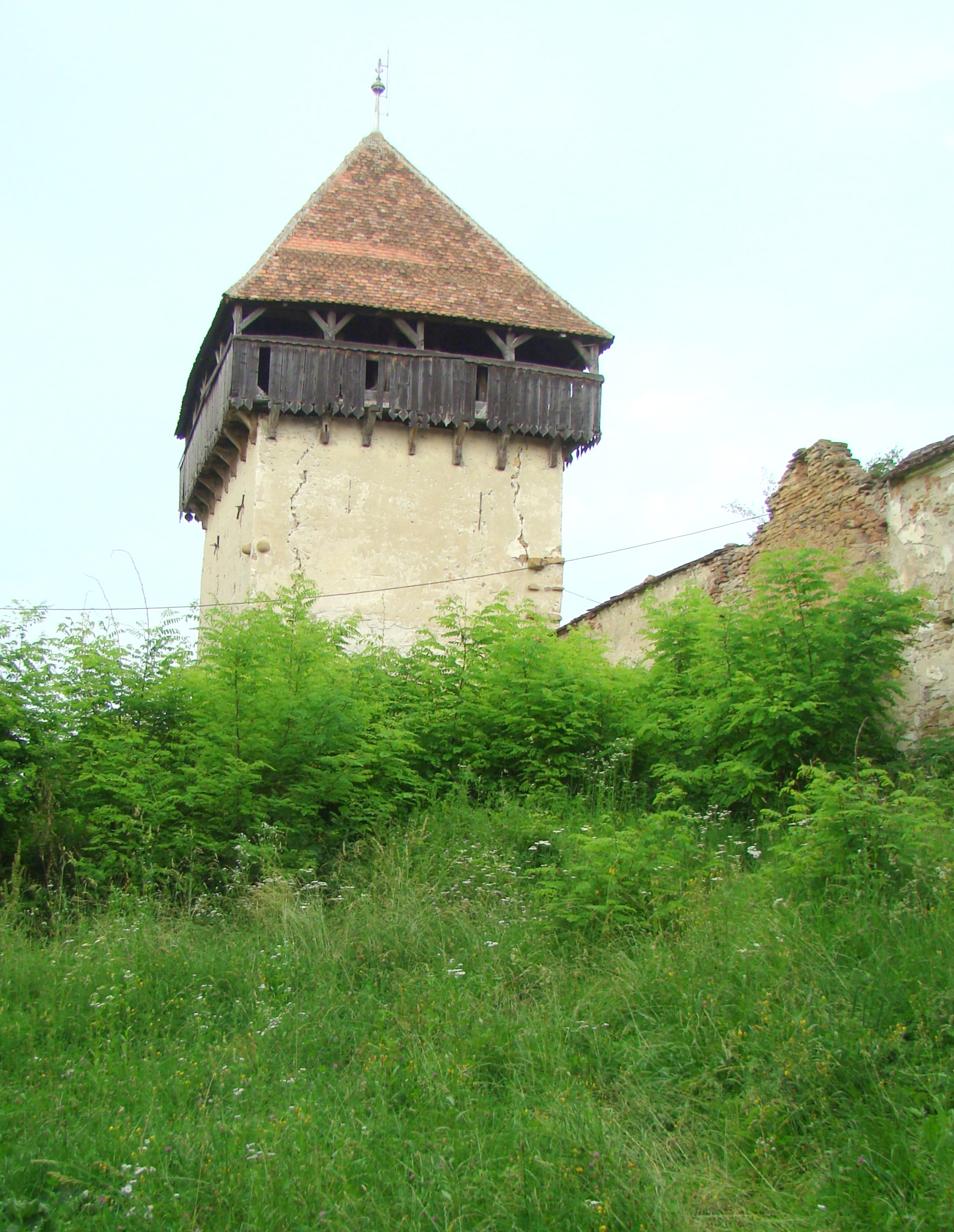 Fortified church in Cobor, Braşov County, Romania